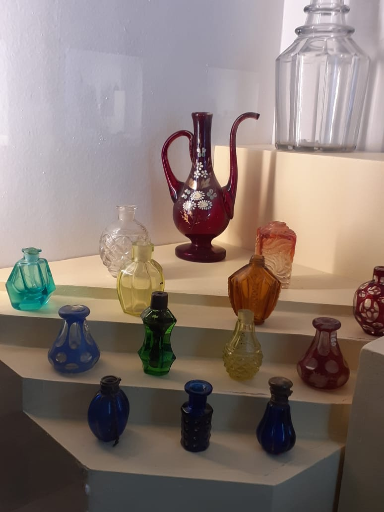 Collection of ancient perfume bottles at Raja Dinkar Kelkar Museum, Pune